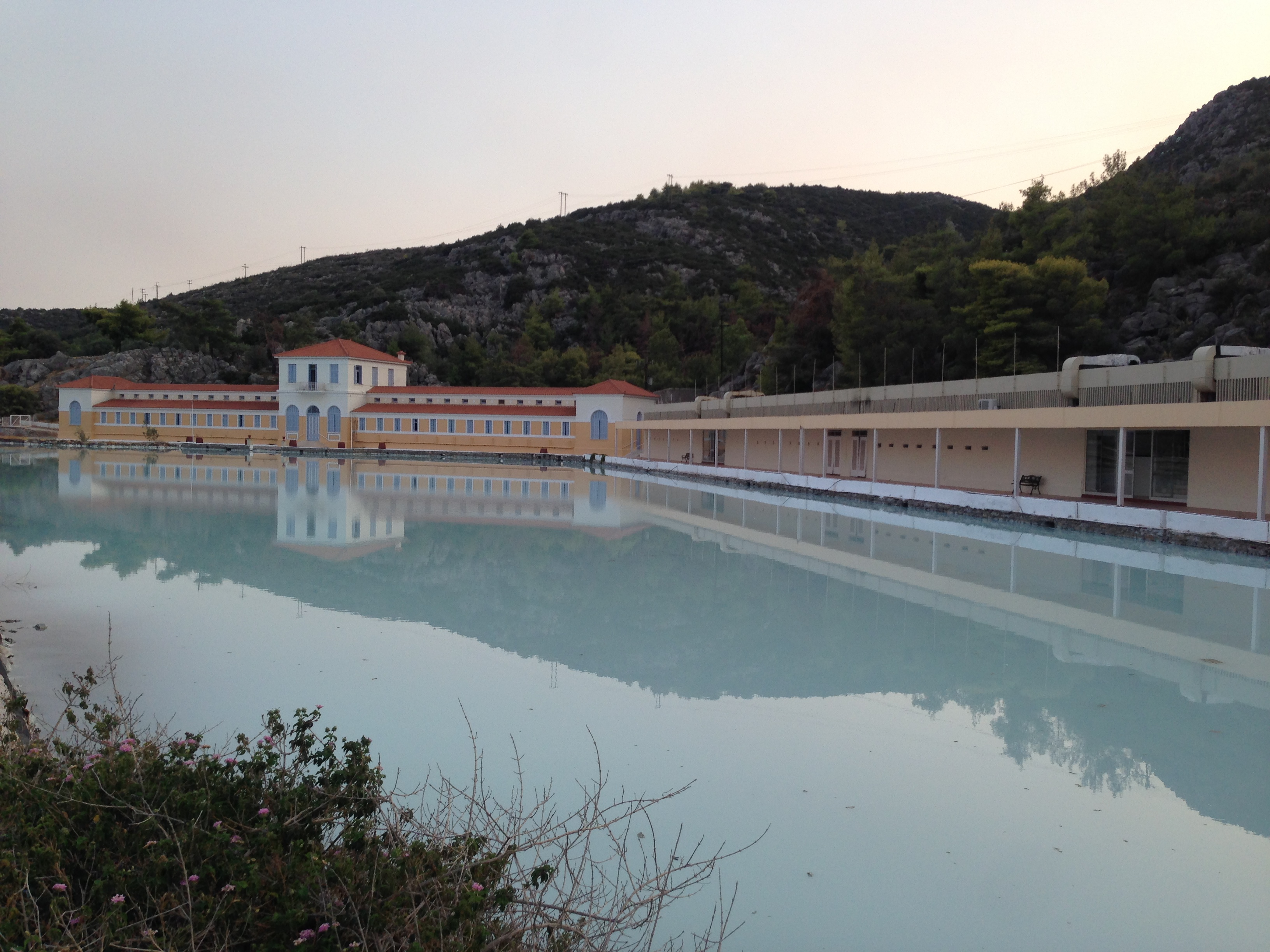 Sulfurous spa from main road